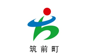 Flag of Chikuzen Fukuoka